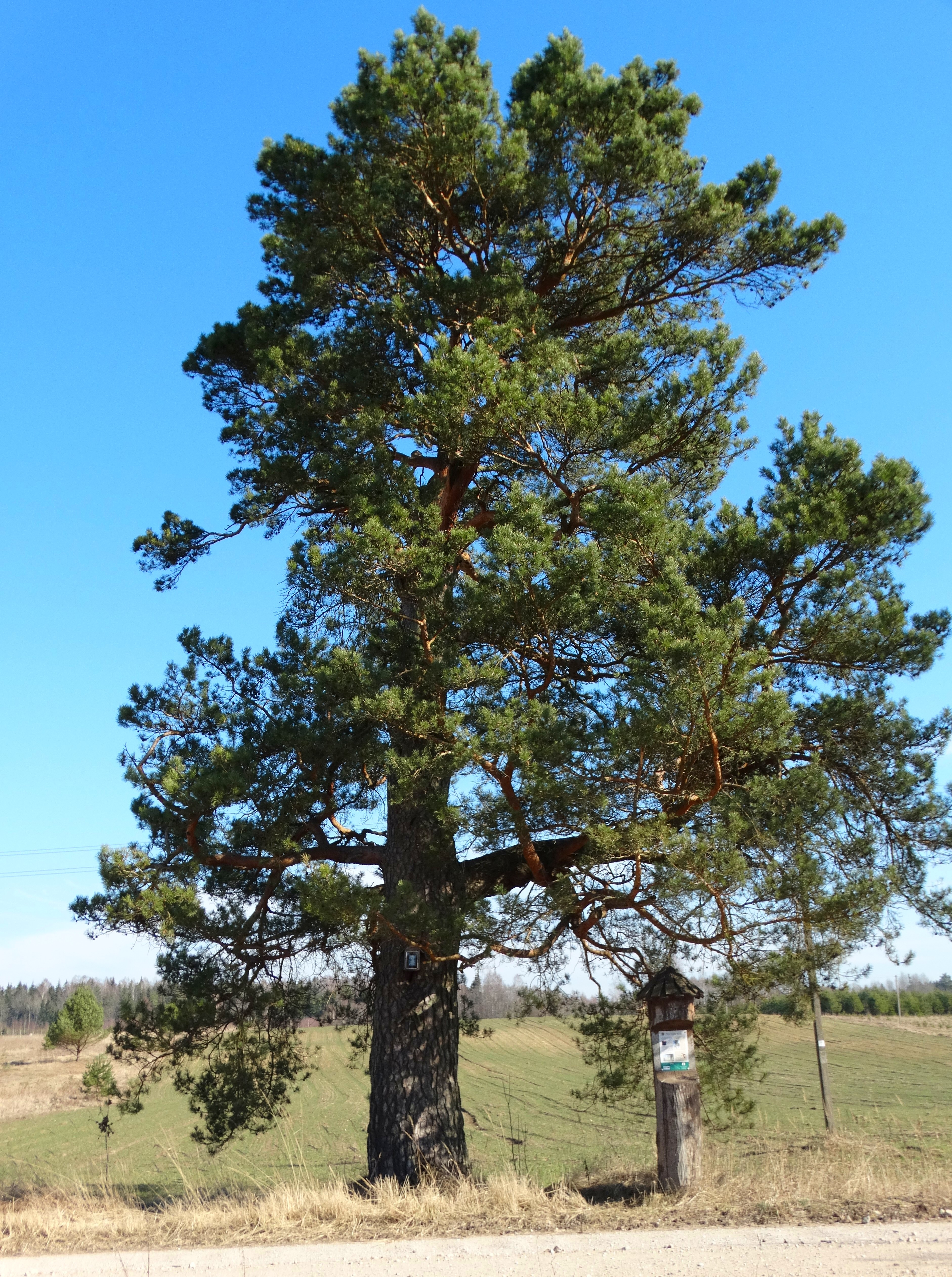 Pociškė Pine tree, Šiauliai district, Lithuania